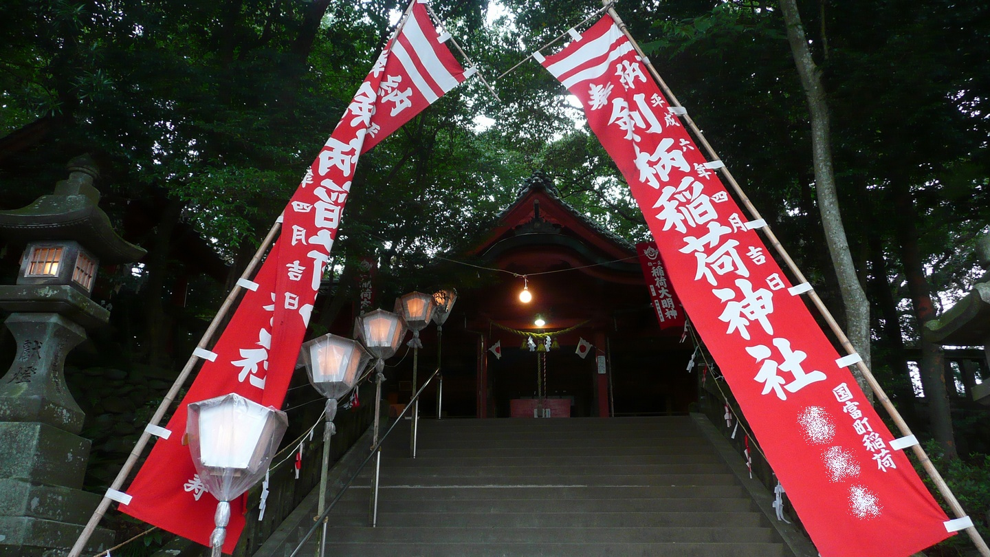 Ken'notsuka Inari Shrine (Kunitomi Town, Miyazaki, Japan)